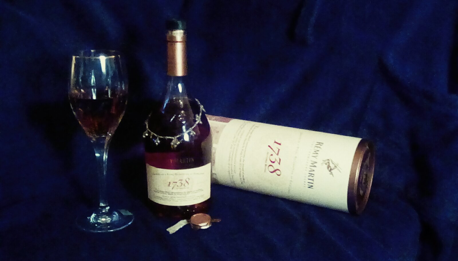 Remy Martin ~ 1738